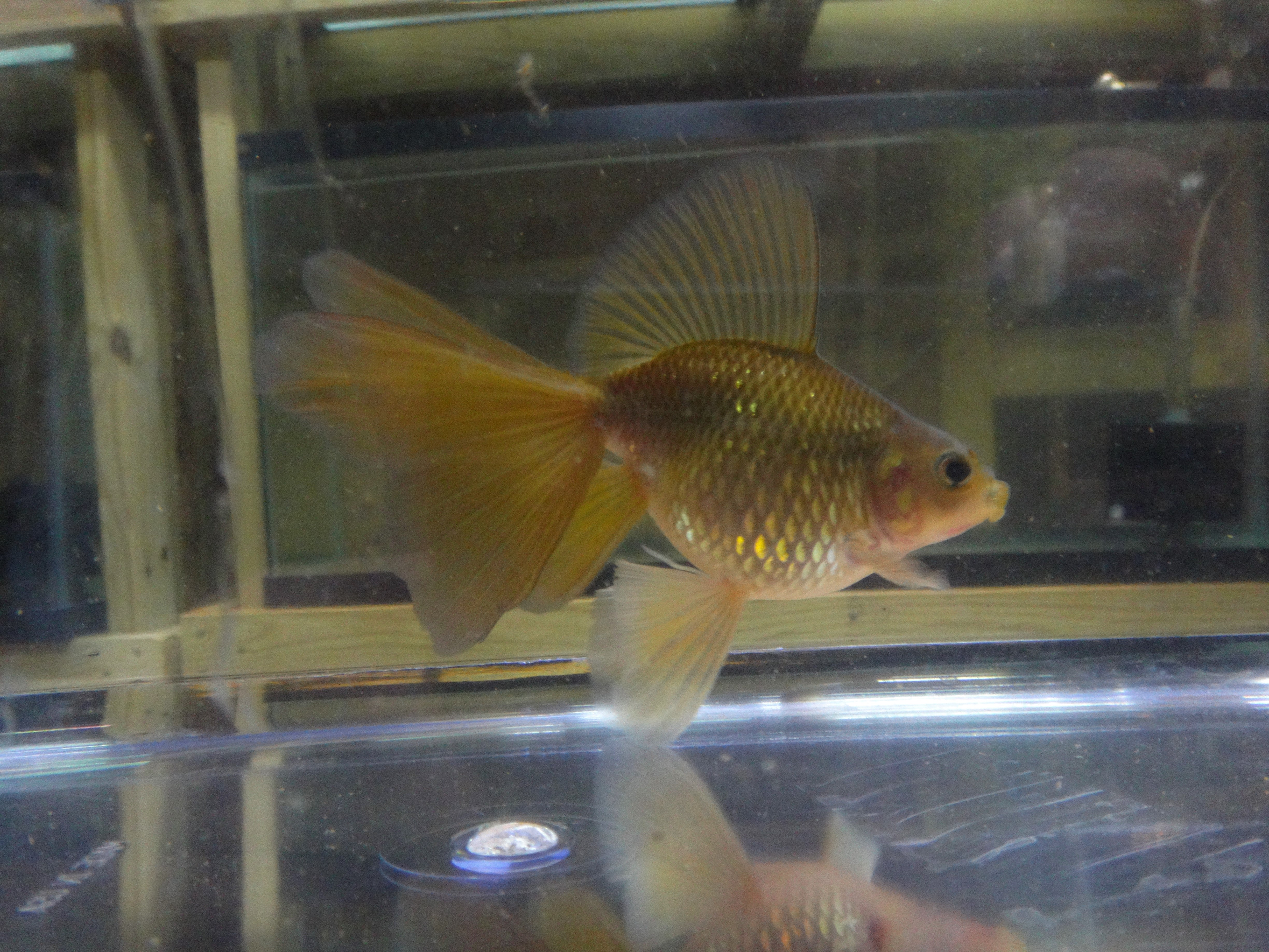 Mock Metallic English Veiltail